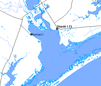 San Antonio Bay, Texas. Map is public domain from selected and downloaded by Joe Freeman